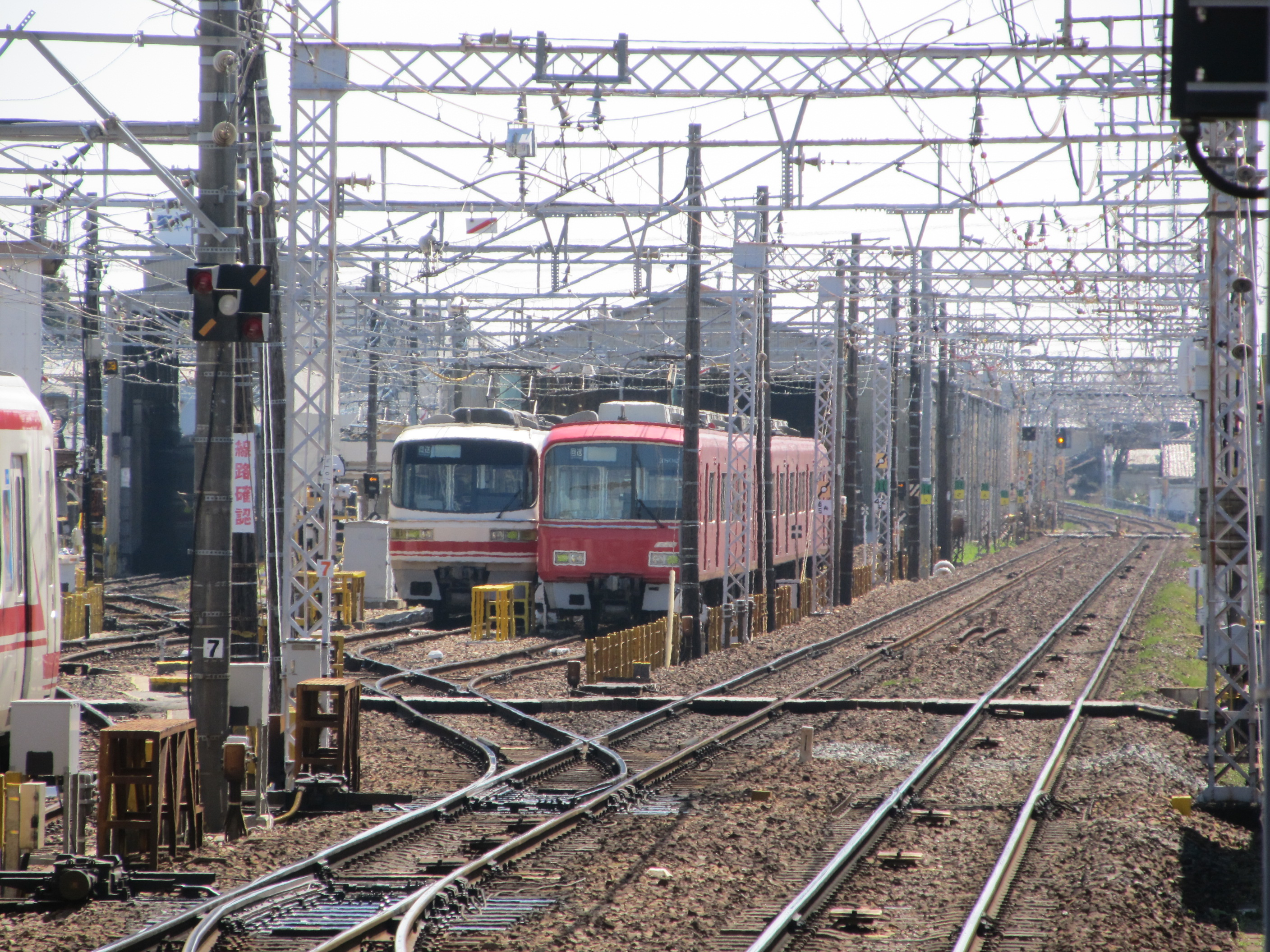 Nagoya Railroad Chajo Inspection Yard